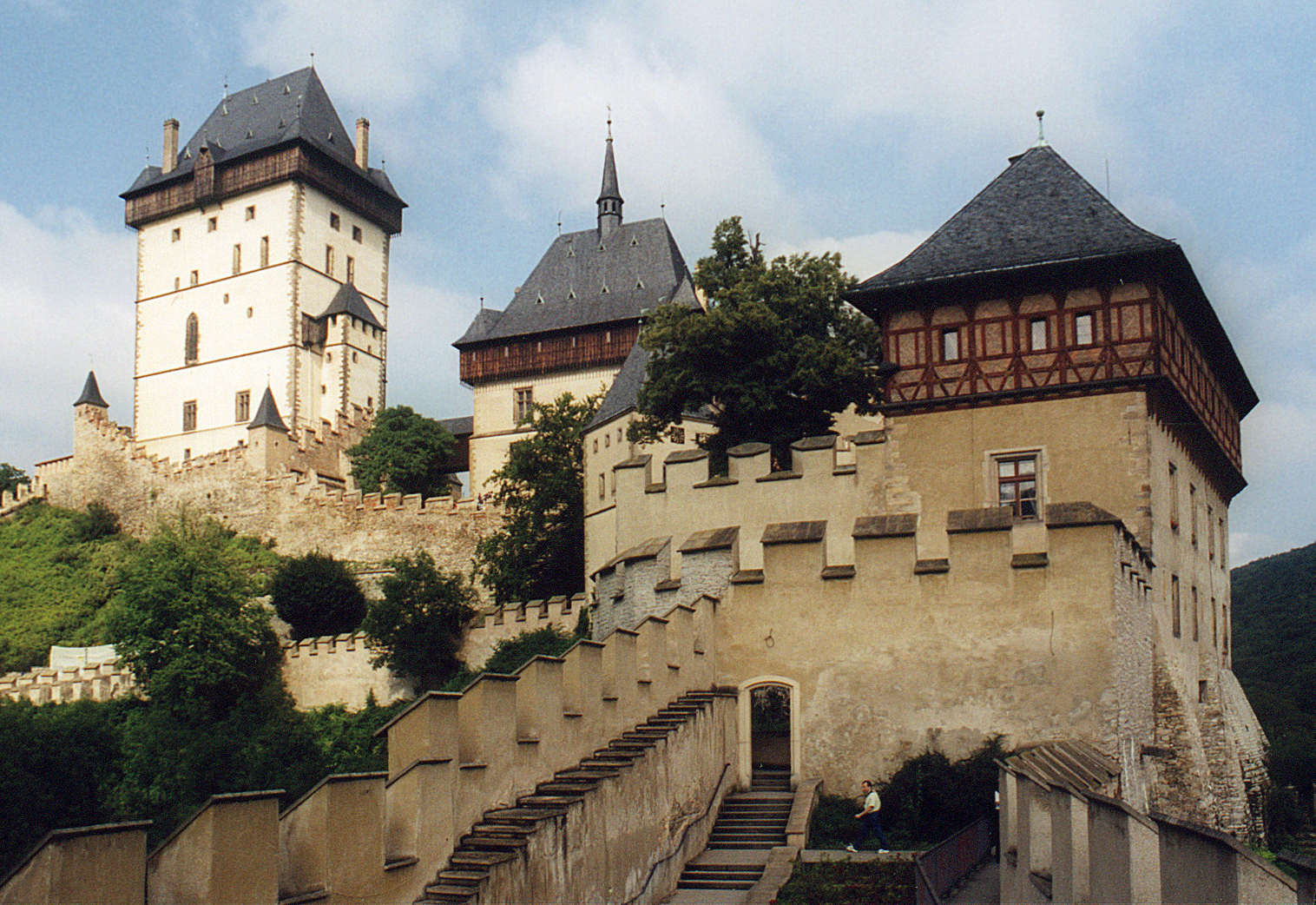 Burg Karlstein (Karlštejn) seen from the head.